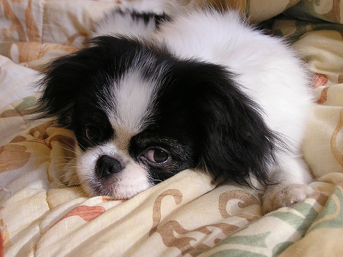 6 months old Japanese Chin pup